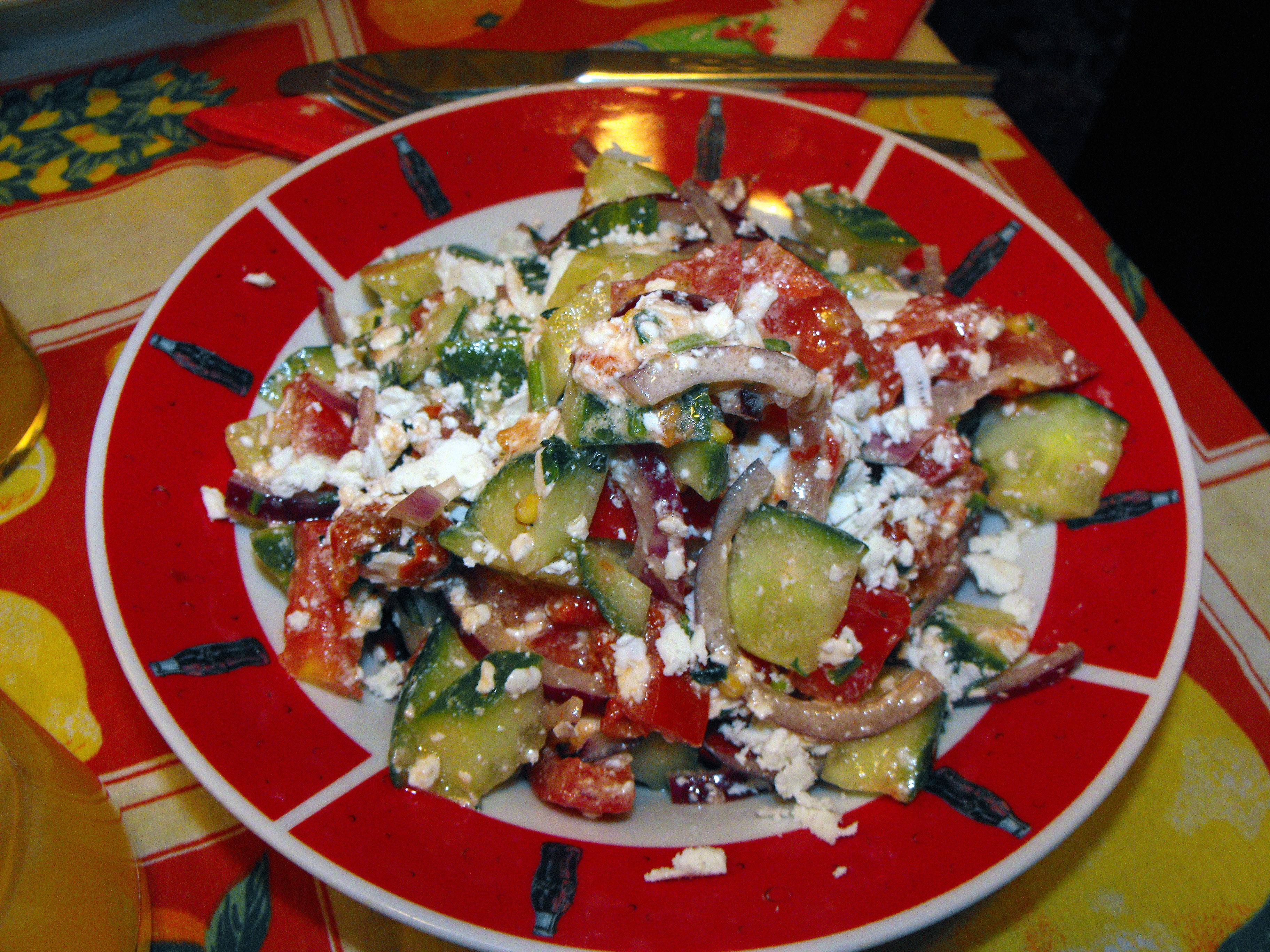 Shopska salad